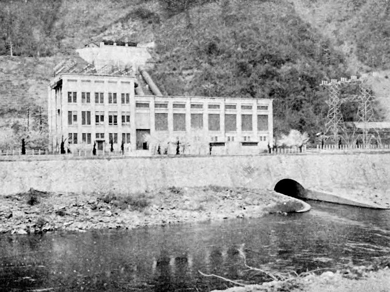 Manohira Power Station (Ōtagawa Power Station).